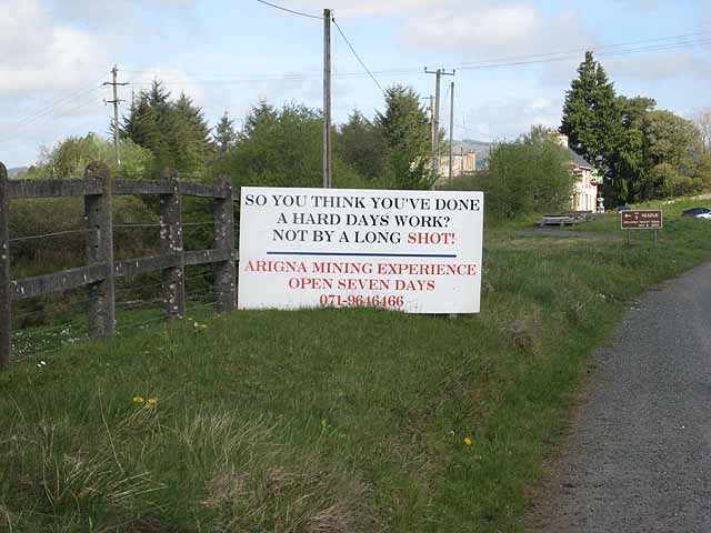 Advance warning! Roadside sign near McRanns Bar on the R280 encouraging visitors to divert to see the Arigna Mining Experience, site of what was once the principal coal-mining area of the Irish Republic.